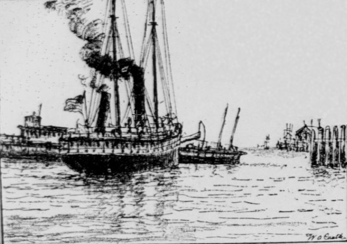 On October 3, 1900, the passenger liner SS Columbia collided with the ferryboat SS Berkeley. The Berkeley sustained minor damage, while the Columbia's bow was badly damaged.